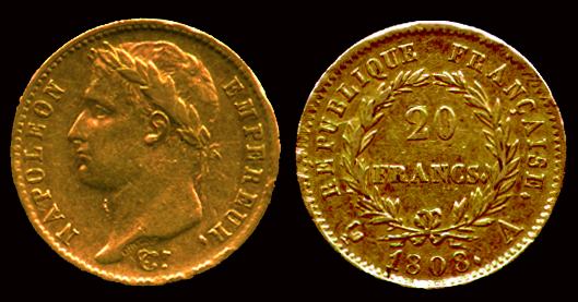 Gold 20 franc coin of Napoleon I, struck 1808